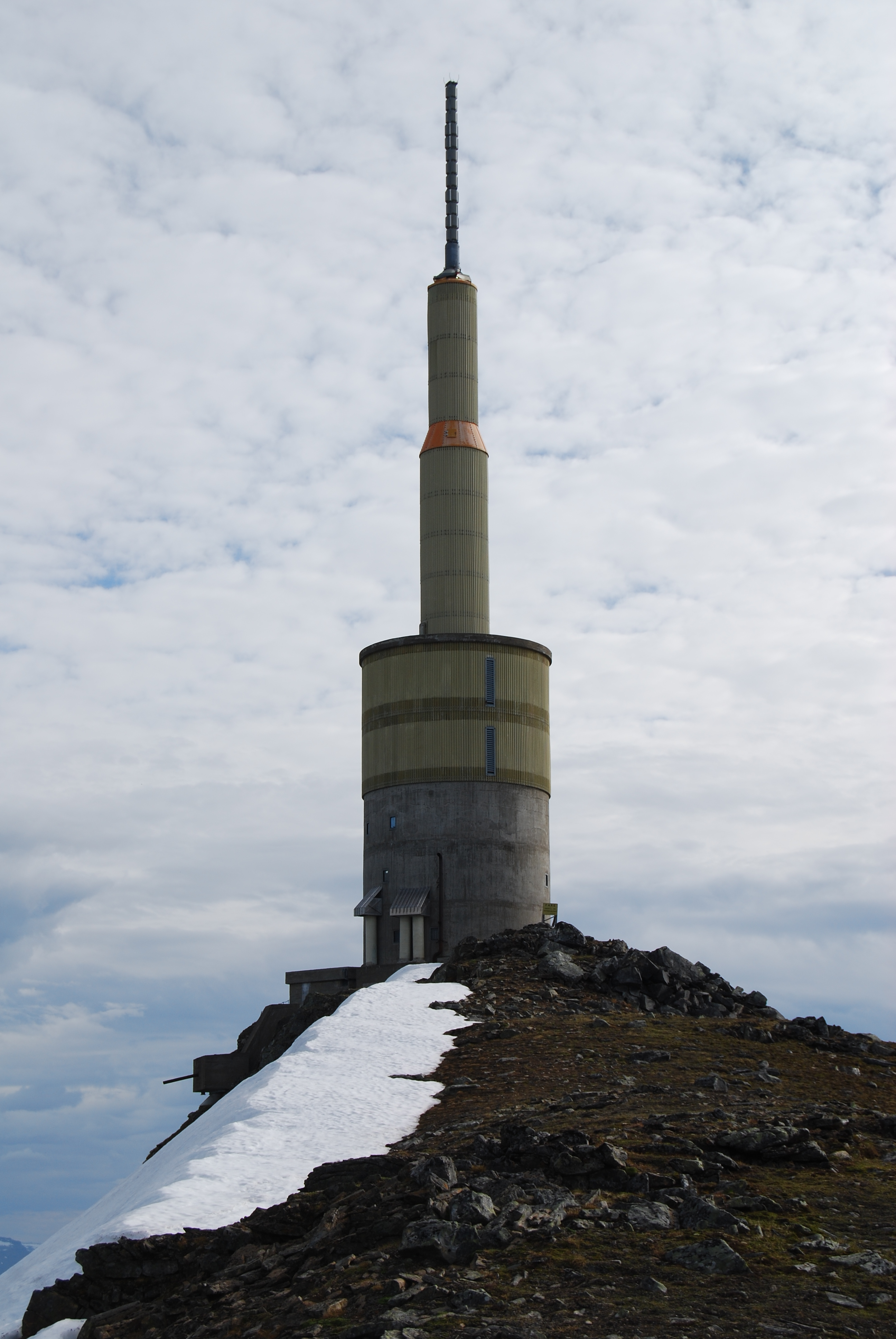 Kistefjellet hill with TV tower on the top, Lenvik, Norway.